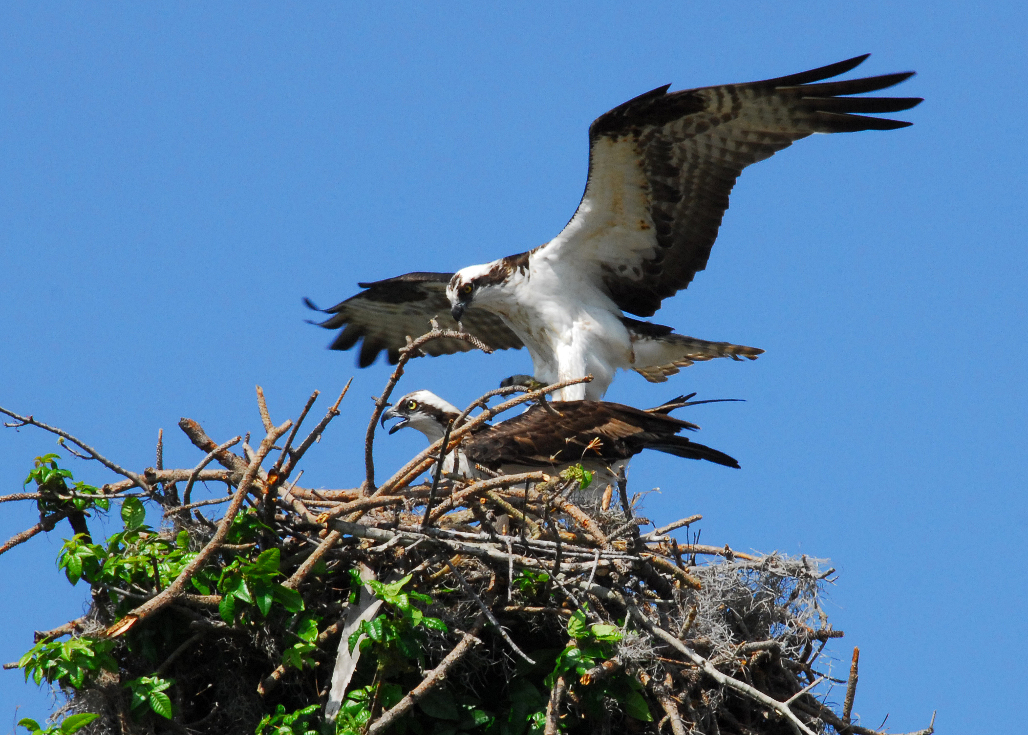 Osprey prepare to mate on their nest. Florida.